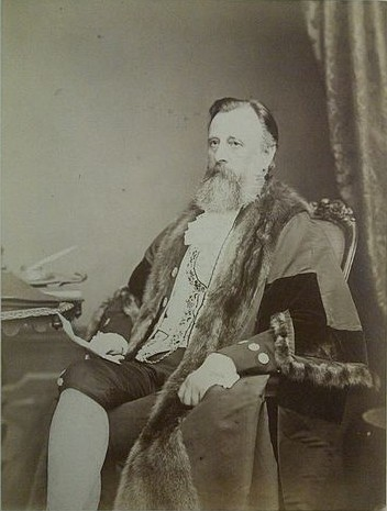 Portrait photograph of the Chamberlain of the City of London in his finery